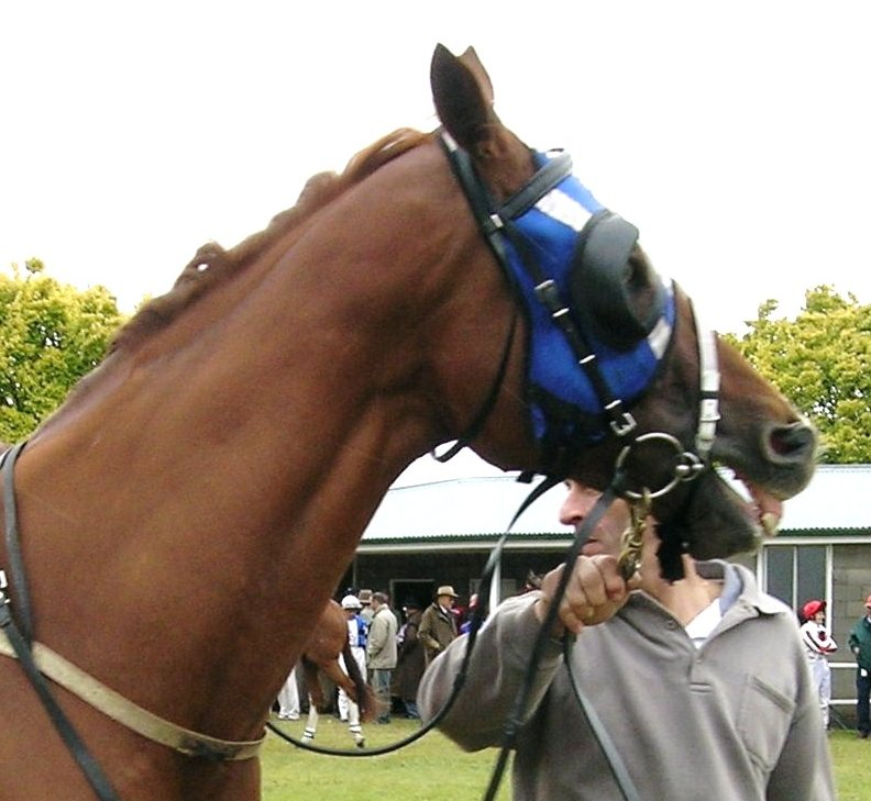 Blue and white blinkers under a racing bridle